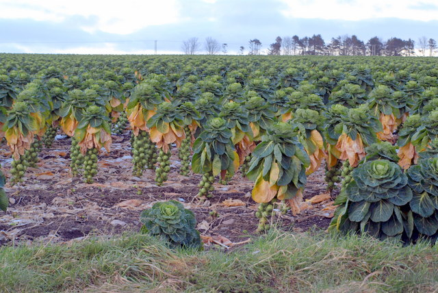 Field of Brussels Sprouts near Denhead of Arbirlot Picture taken from Guynd / Arbroath Road, about half a mile east of Denhead of Arbirlot Farm.